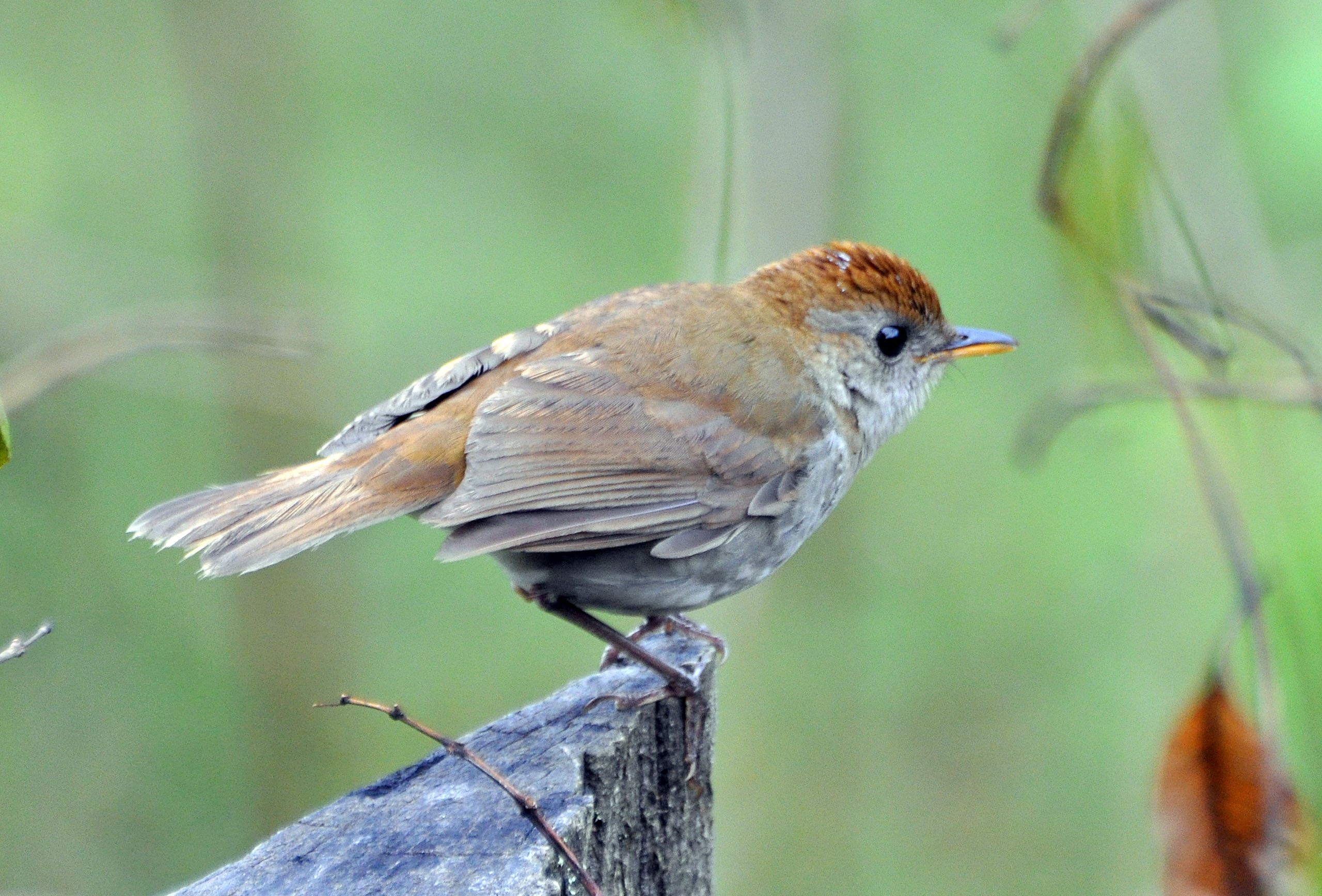 Catharus frantzii wetmorei 26-Mar-12 Savegre Valley, Costa Rica